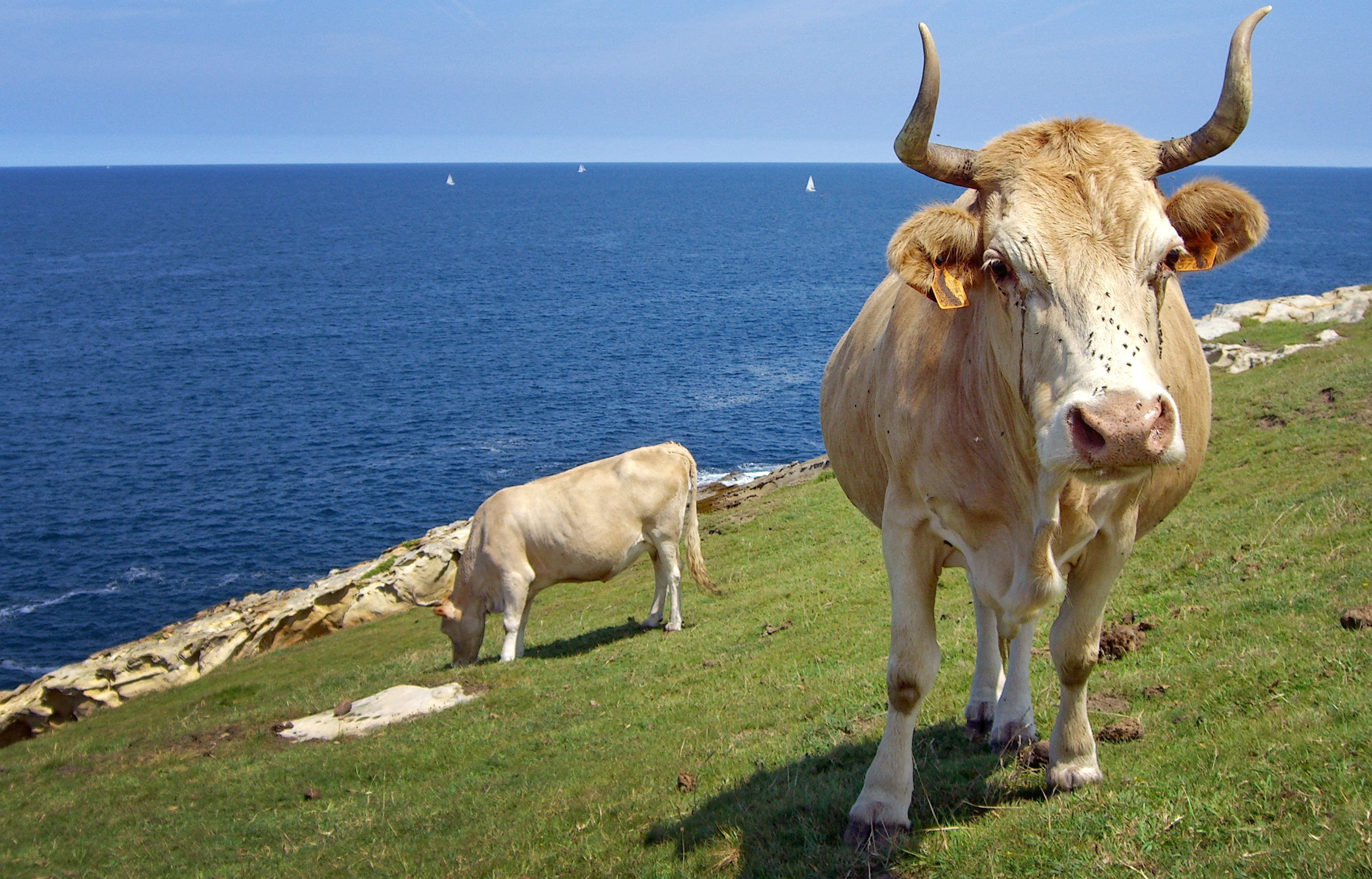 Cows in Jaizkibel mountain (Gipuzkoa, Basque Country).